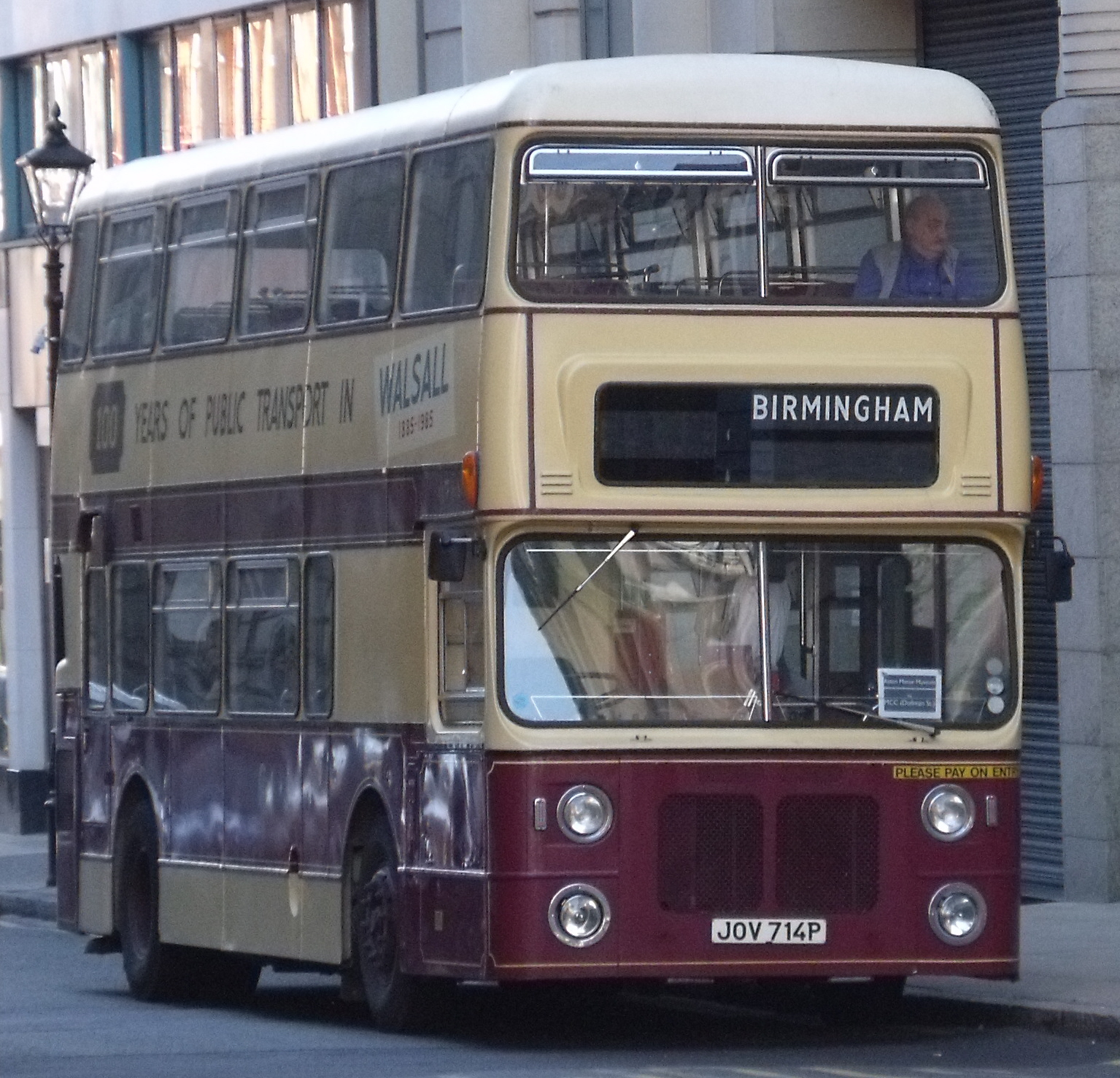 Preserved West Midlands PTE bus 4714 (reg. JOV 714P), a 1975 Bristol VRT/SL2 double-decker with Metro Cammell bodywork, pictured on Edmund Street in Birmingham city centre. It belongs to the Aston Manor Road Transport Museum based in Witton Lane in the northern suburb of Aston. It is preserved in a special livery reminiscent of the South Staffordshire Tramways Company, and commemorating '100 Years of Public Transport in Walsall' (1885-1985), originally applied to the bus while in service.